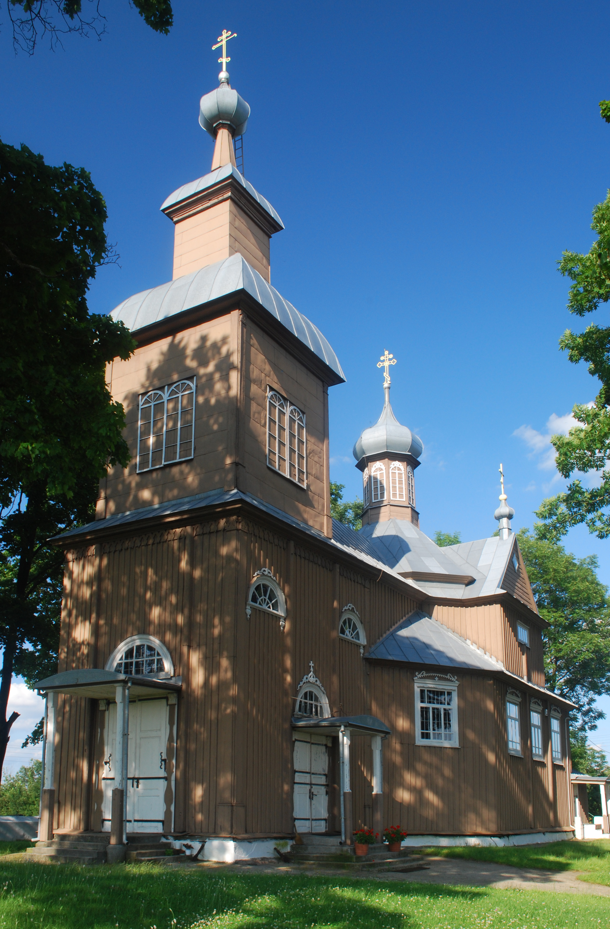 This photo from Podlaskie Voievodeship was taken during Polish Wikiexpedition 2009 set up by Wikimedia Polska Association. The making of this document was supported by Wikimedia Polska. Cerkiew w Trześciance